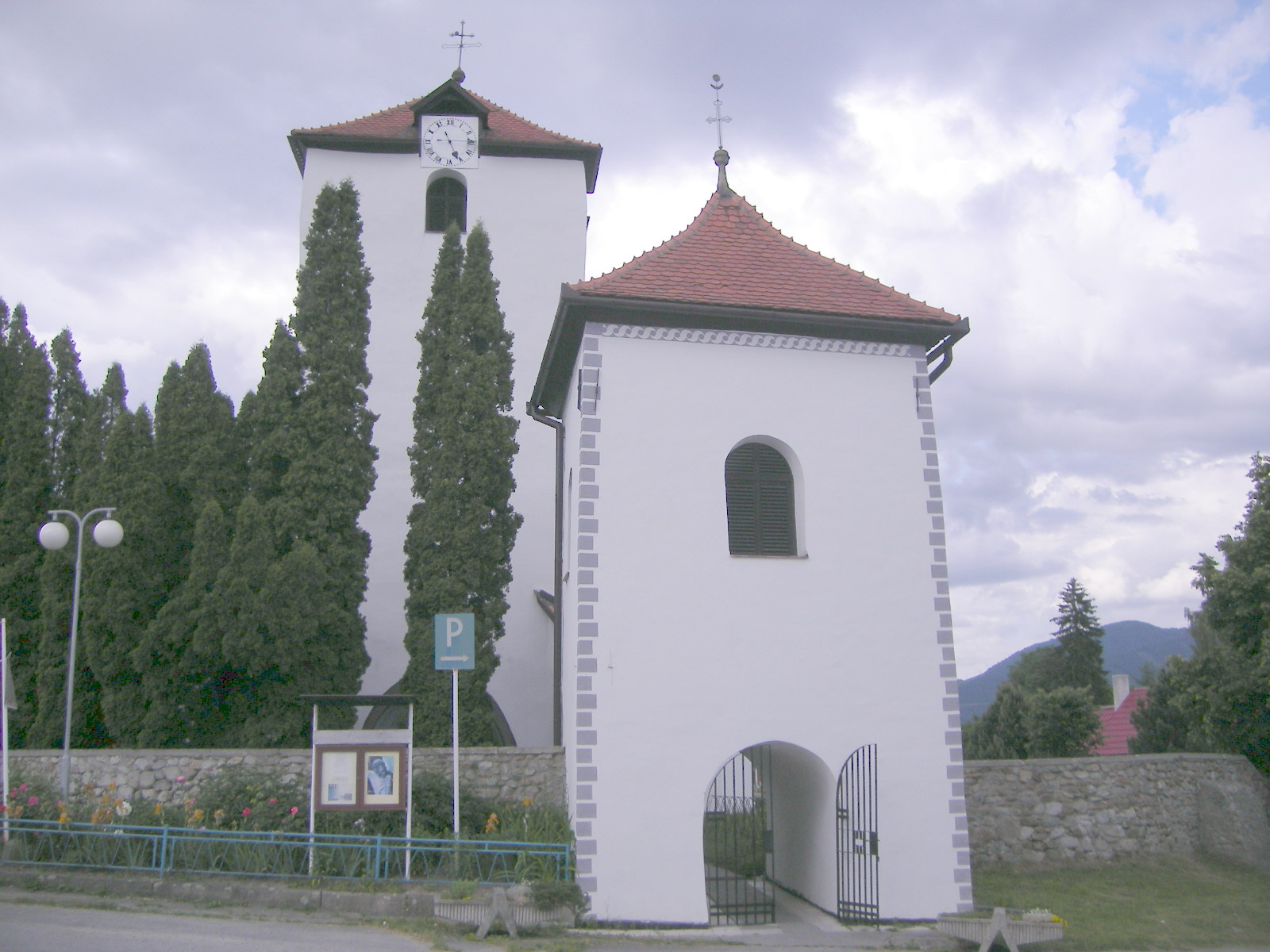 Turany - fortified catholic church